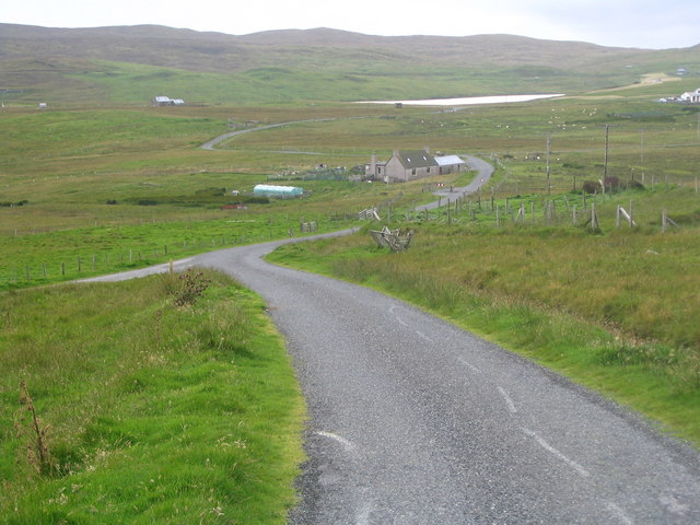 House at Toam from Burravoe